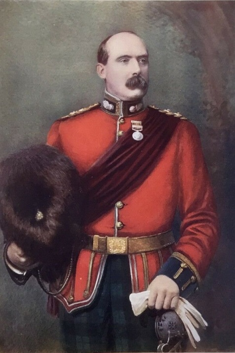 Portrait of Lt. Col. William Alexander Thorneycroft